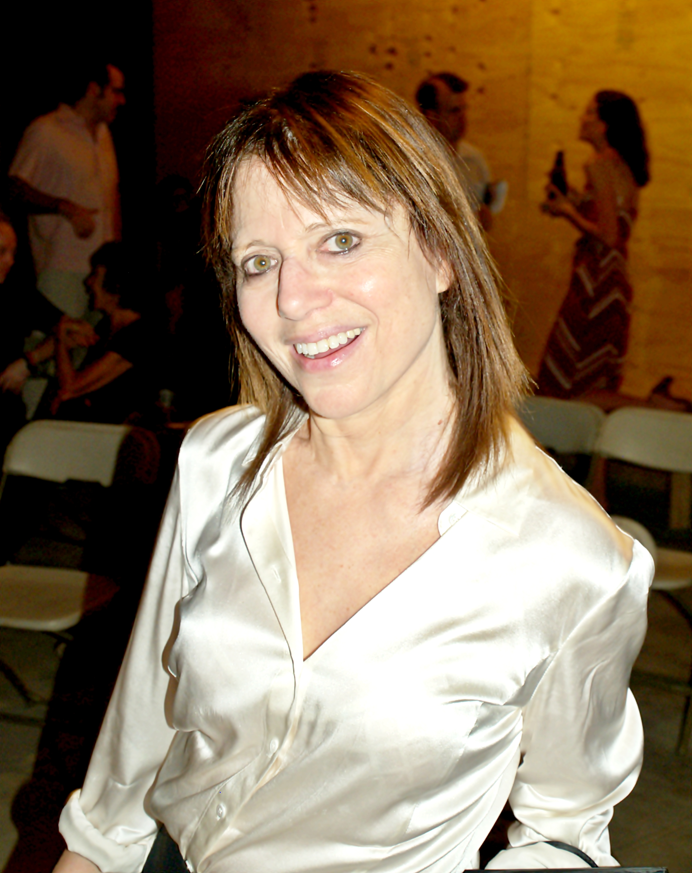 Judy Rifka at the 2010 launch of John Reed's Tales of Woe, published by MTV Books.